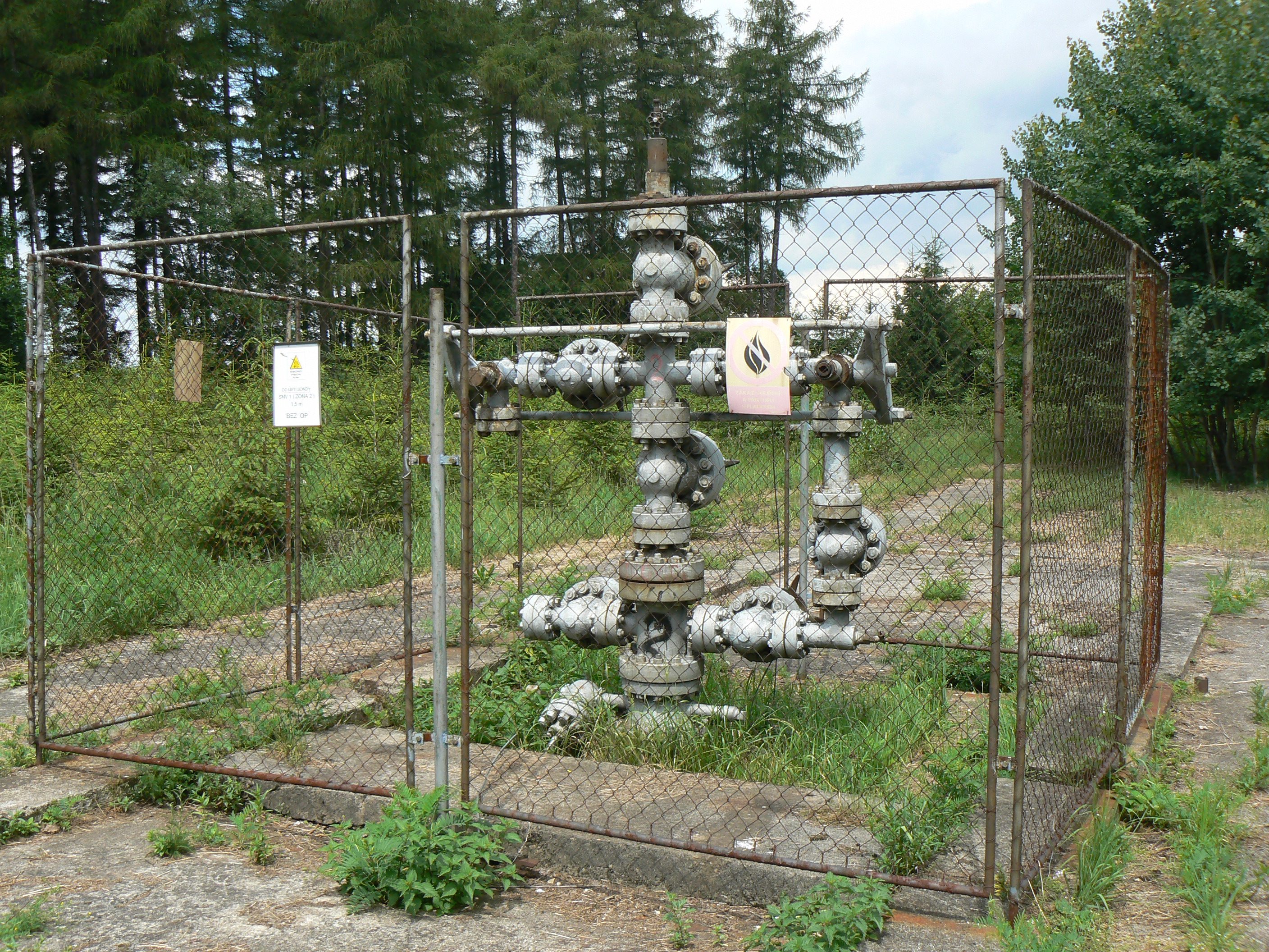 Oil well on hill Hradisko, Czech Republic.